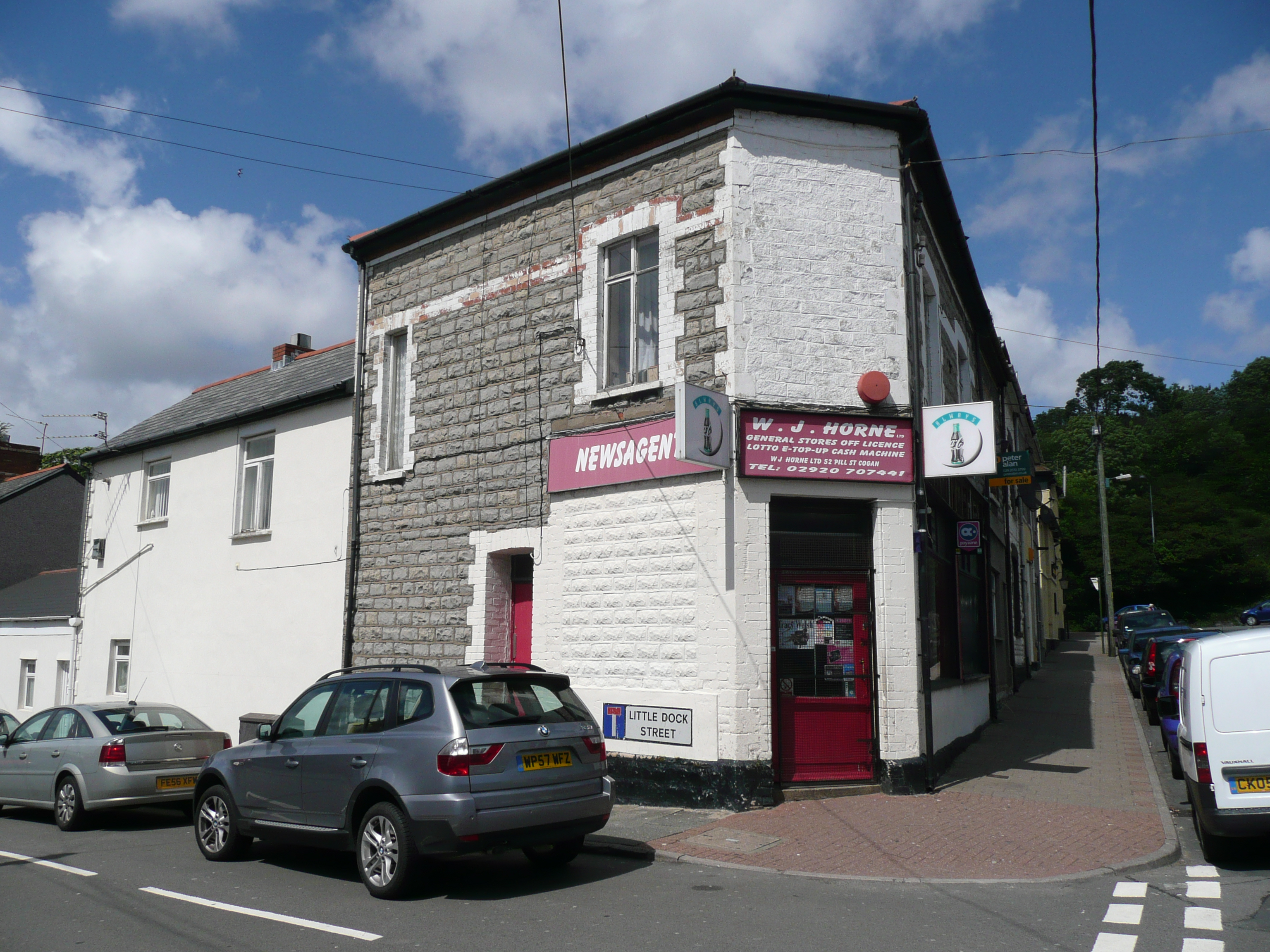 Cogan General Store in Cogan near Penarth